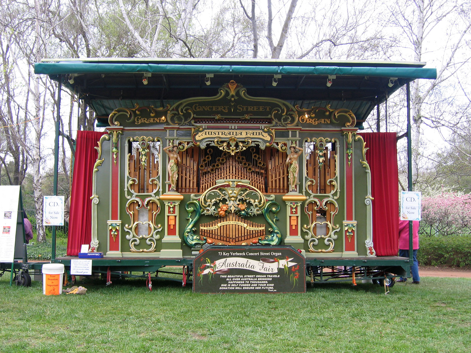 The National Anthem booth in Floriade, Canberra, Australian Capital Territory.